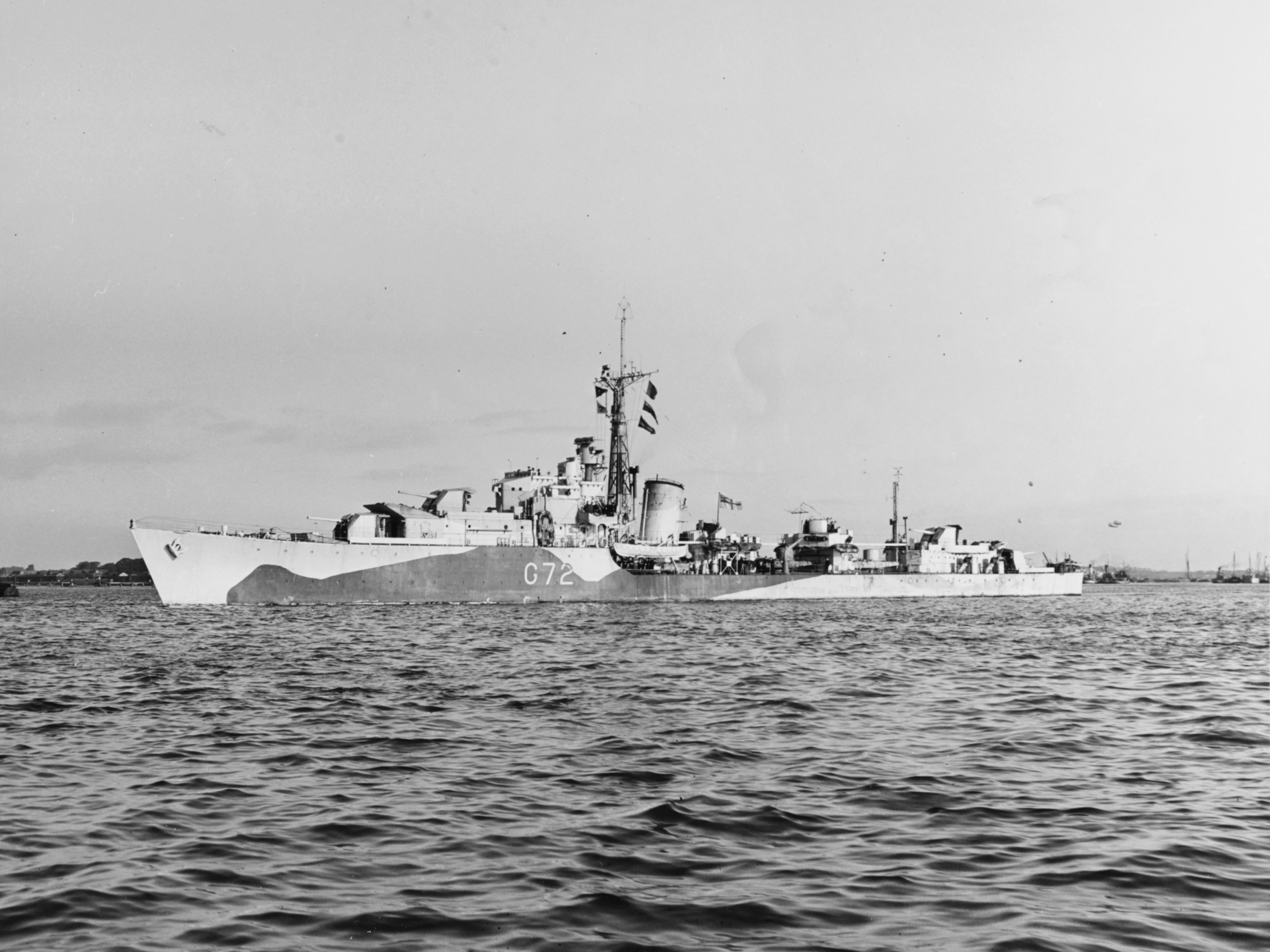 Normandy Invasion, 1944: the Royal Navy destroyer HMS Scorpion (G72), which carried Admiral Harold R. Stark, U.S. Navy, across the channel on his inspection tour on the beachhead, 14 June 1944. The photo was taken in an English port, just before Admiral Stark boarded the ship.